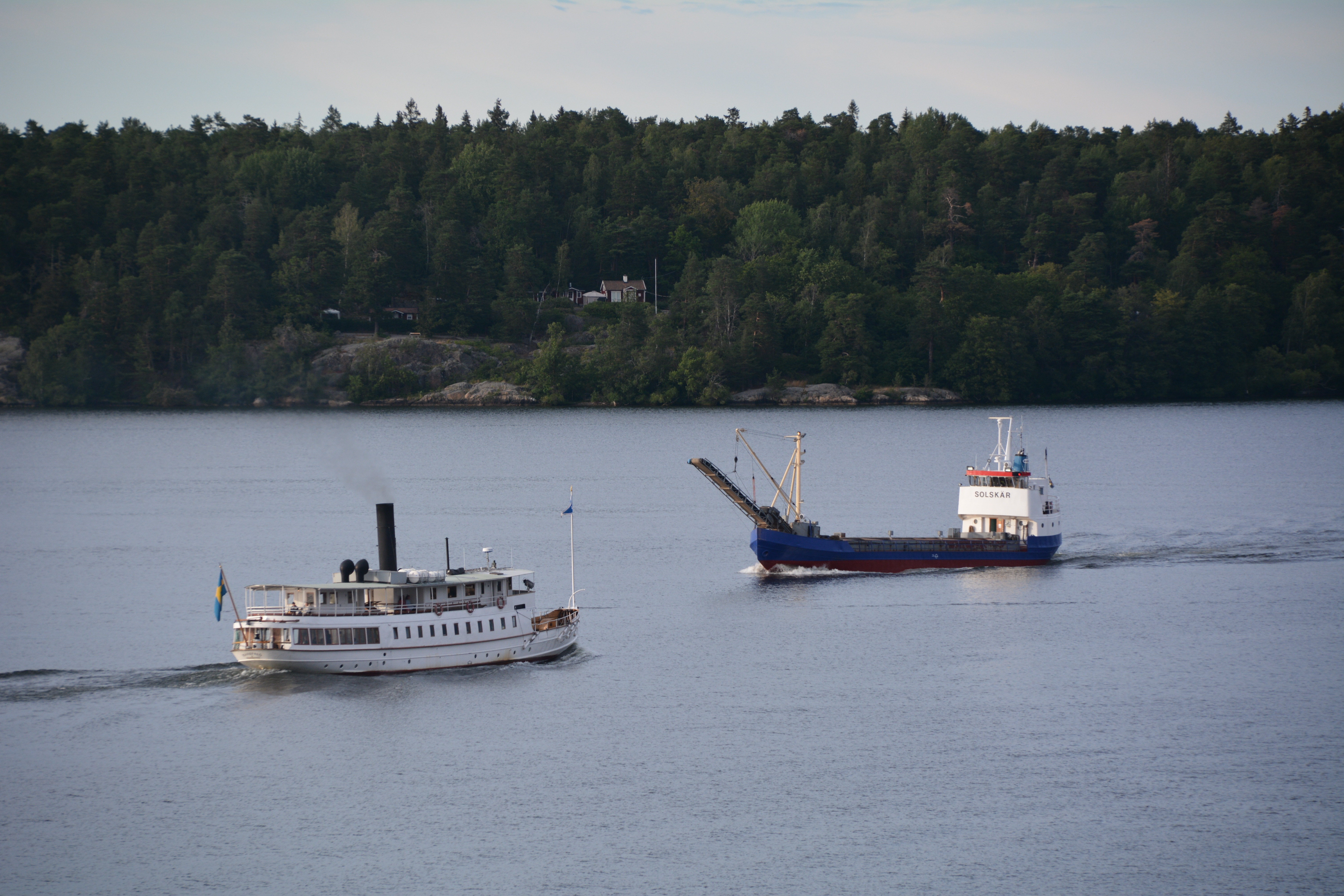 MS Solskär and SS Mariefred at Lake Mälaren outside Stockholm